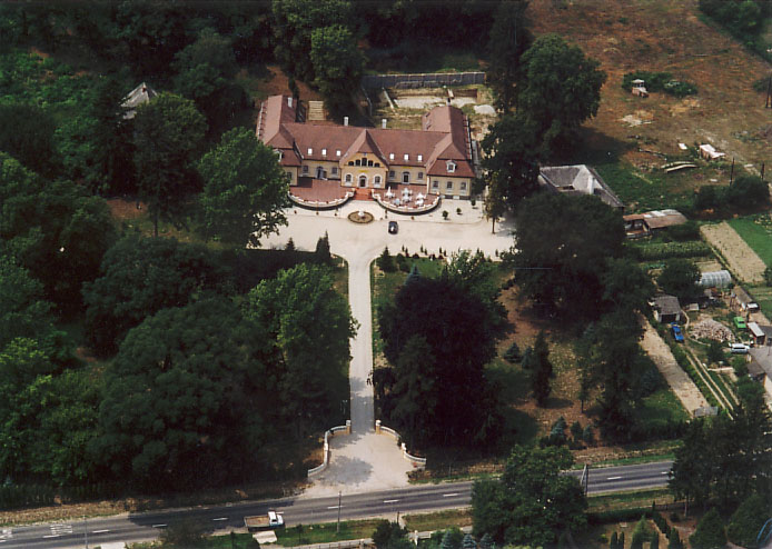 Zalacsány, Hungary, aerialphotography This is a photo of a monument in Hungary, Identifier: 11056